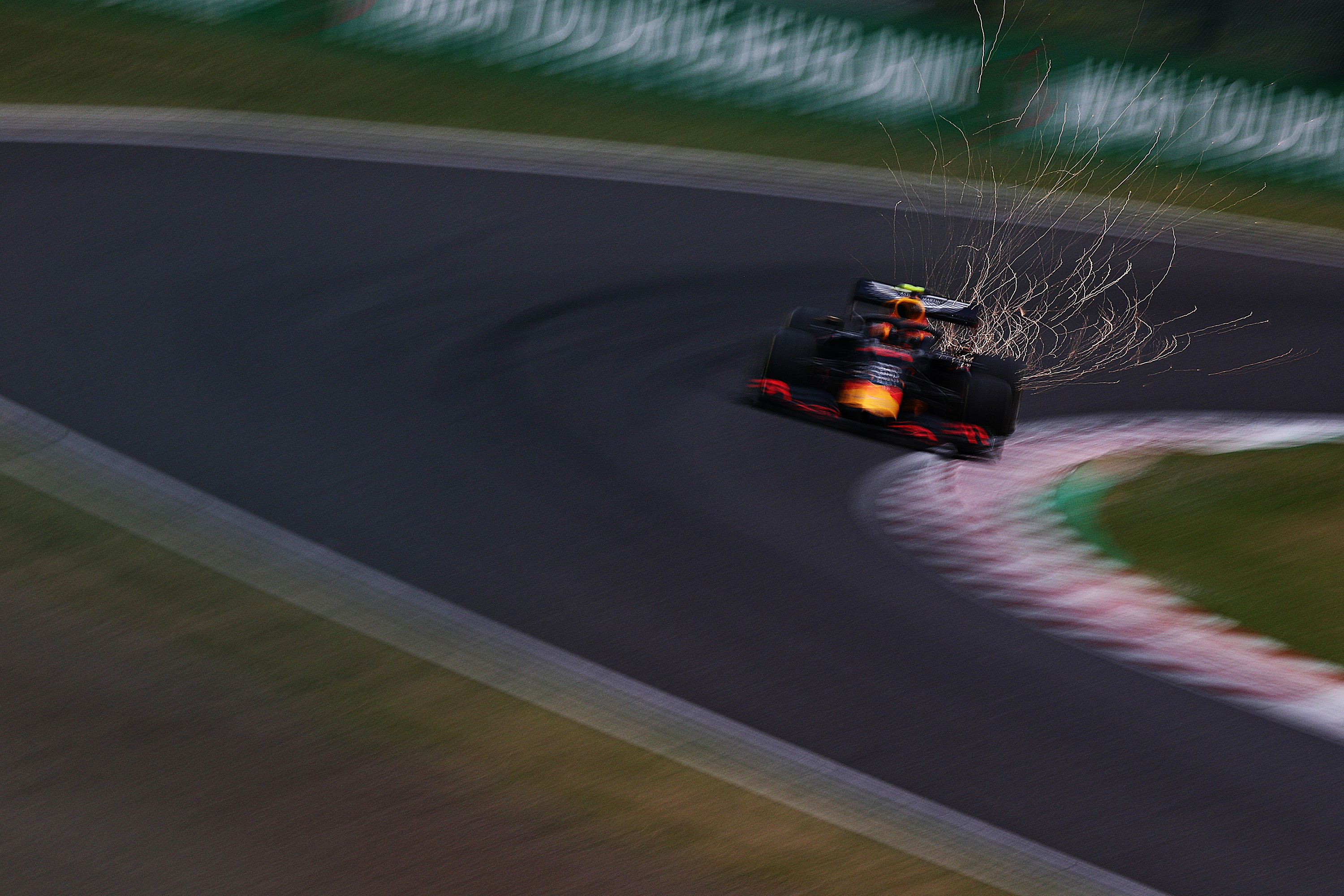 2019.10.11 F1 Rd.17 JapaneseGP FP2 Suzuka Circuit Aston Martin Red Bull Racing 23 Alexander Albon [7D2_5949ks]